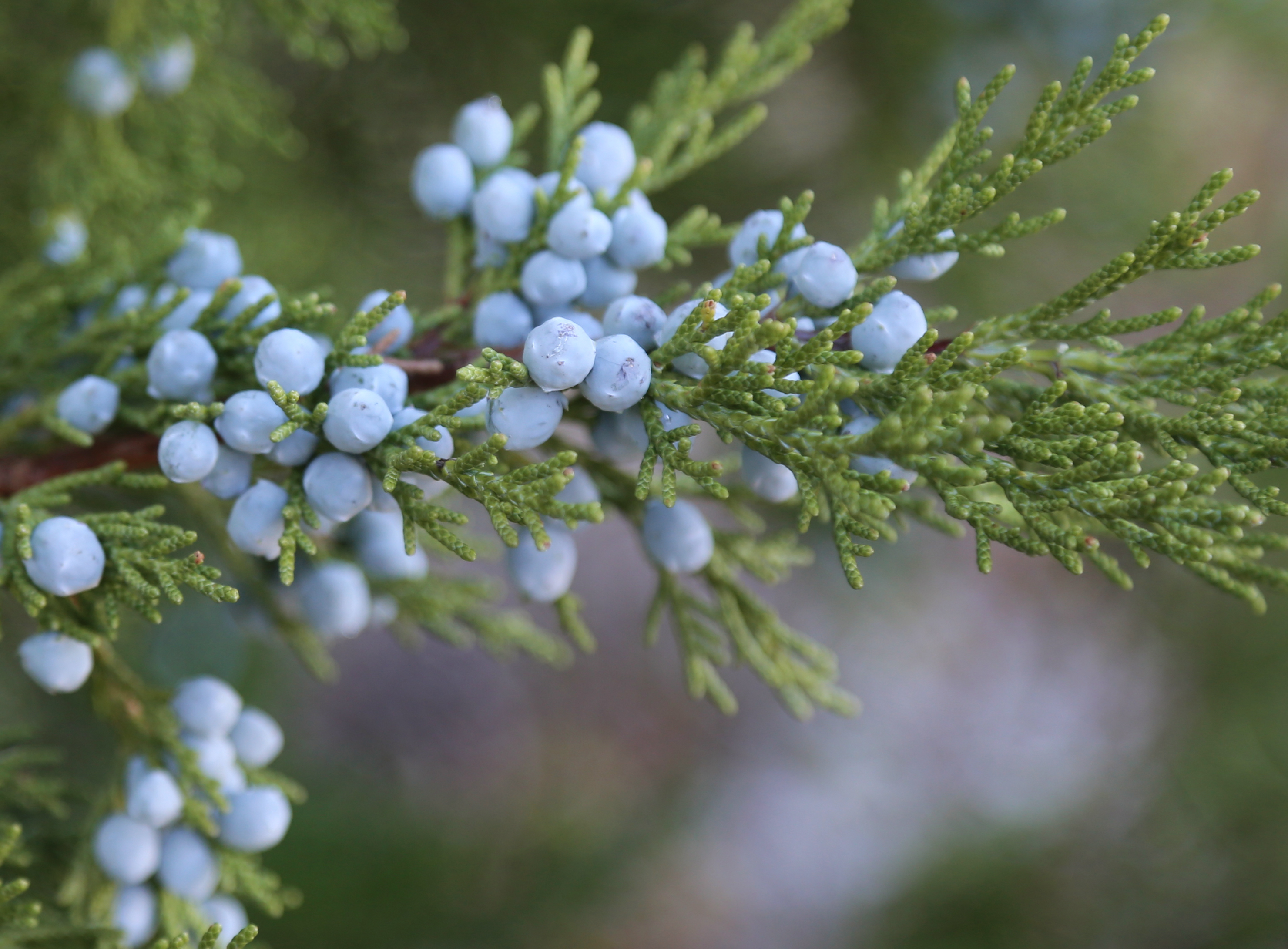 Western juniper (Juniperus occidentalis) branch with lush berries. At 8,000 ft (2,400 m) along the Pine Creek trail above Rovana, Eastern Sierra, California USA.